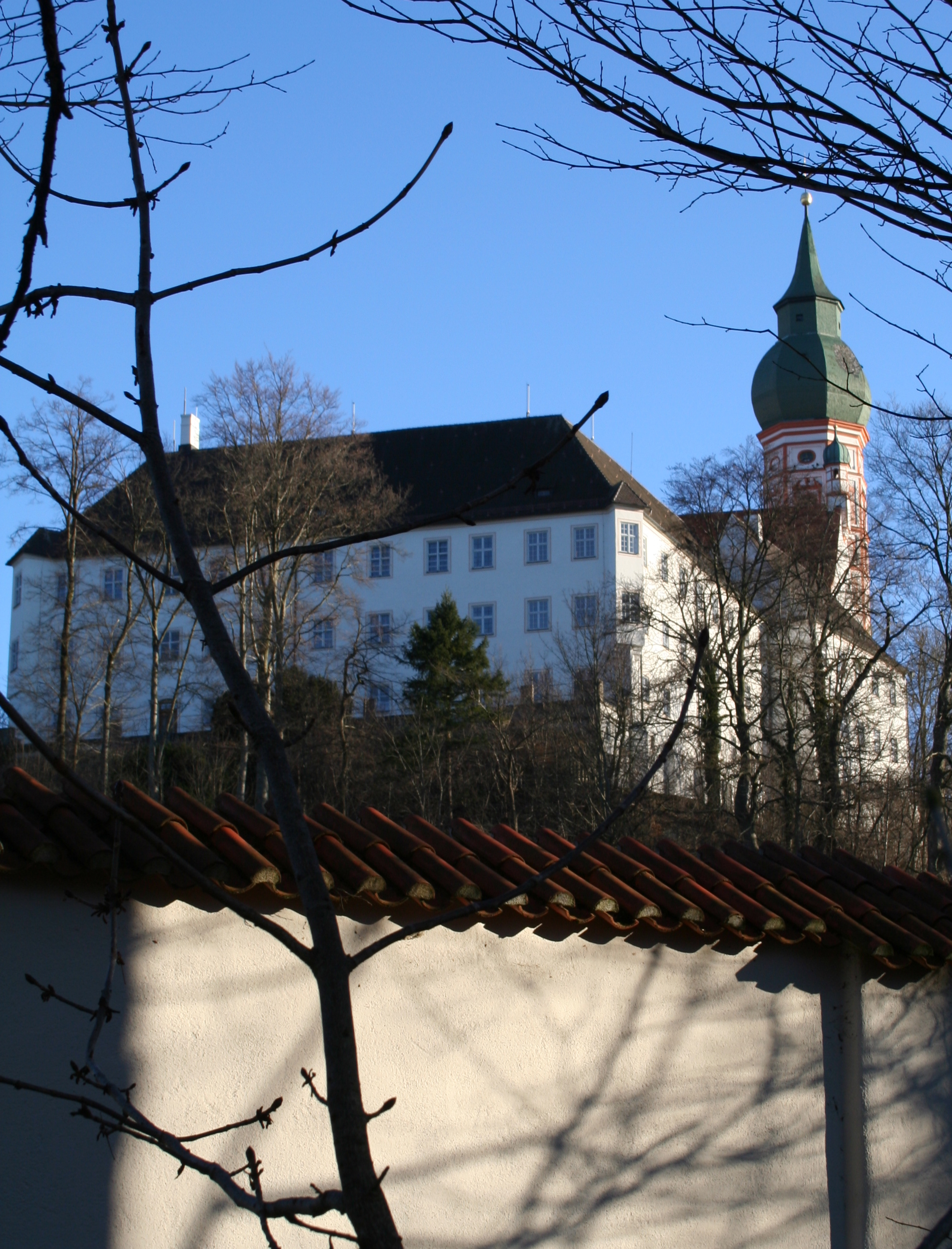 Kloster Andechs in Bavaria